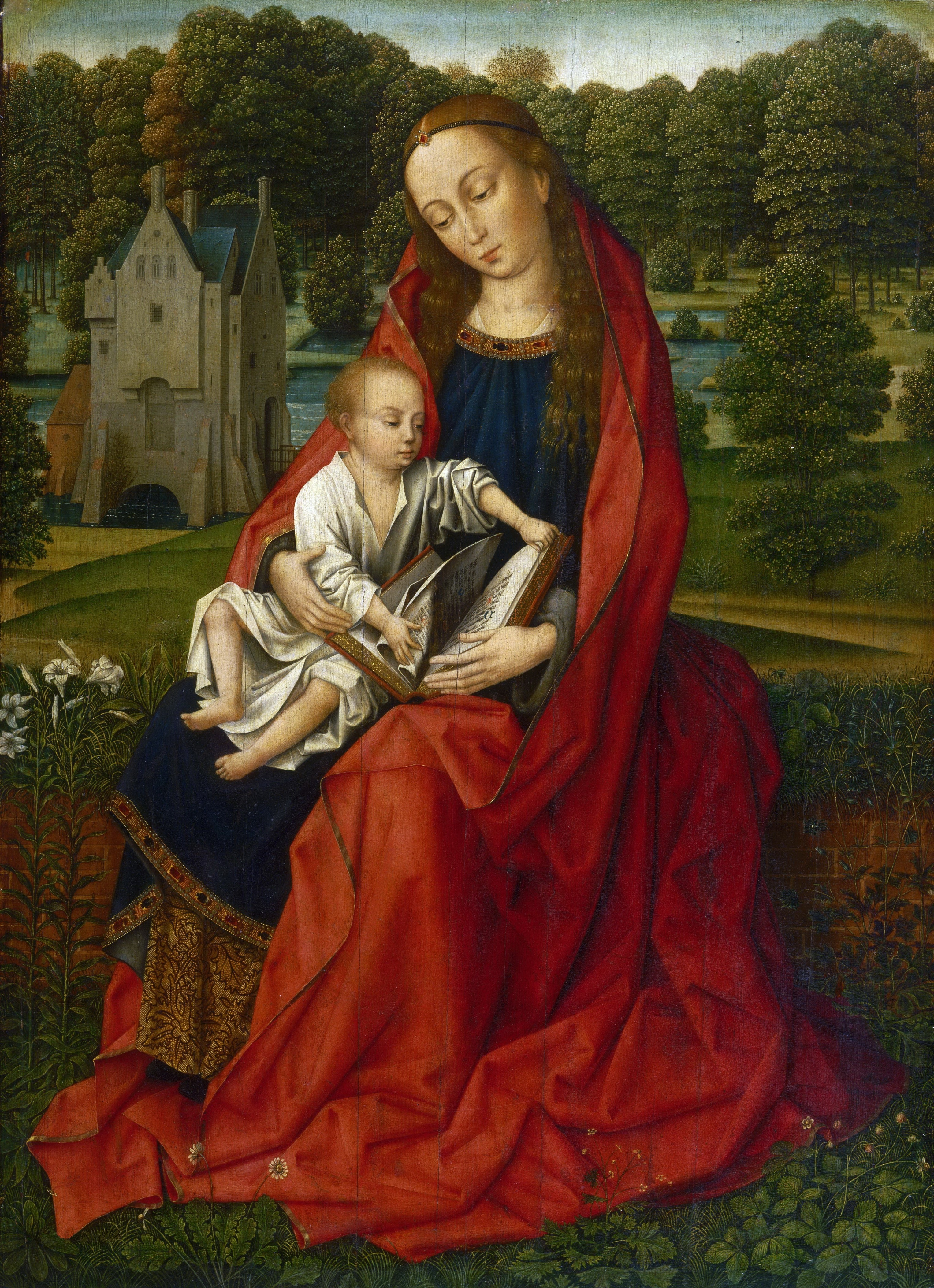 The figures are based on Rogier van der Weyden's 'Virgin and Child in a Niche,' in the Museo del Prado, Madrid (2722) [1]